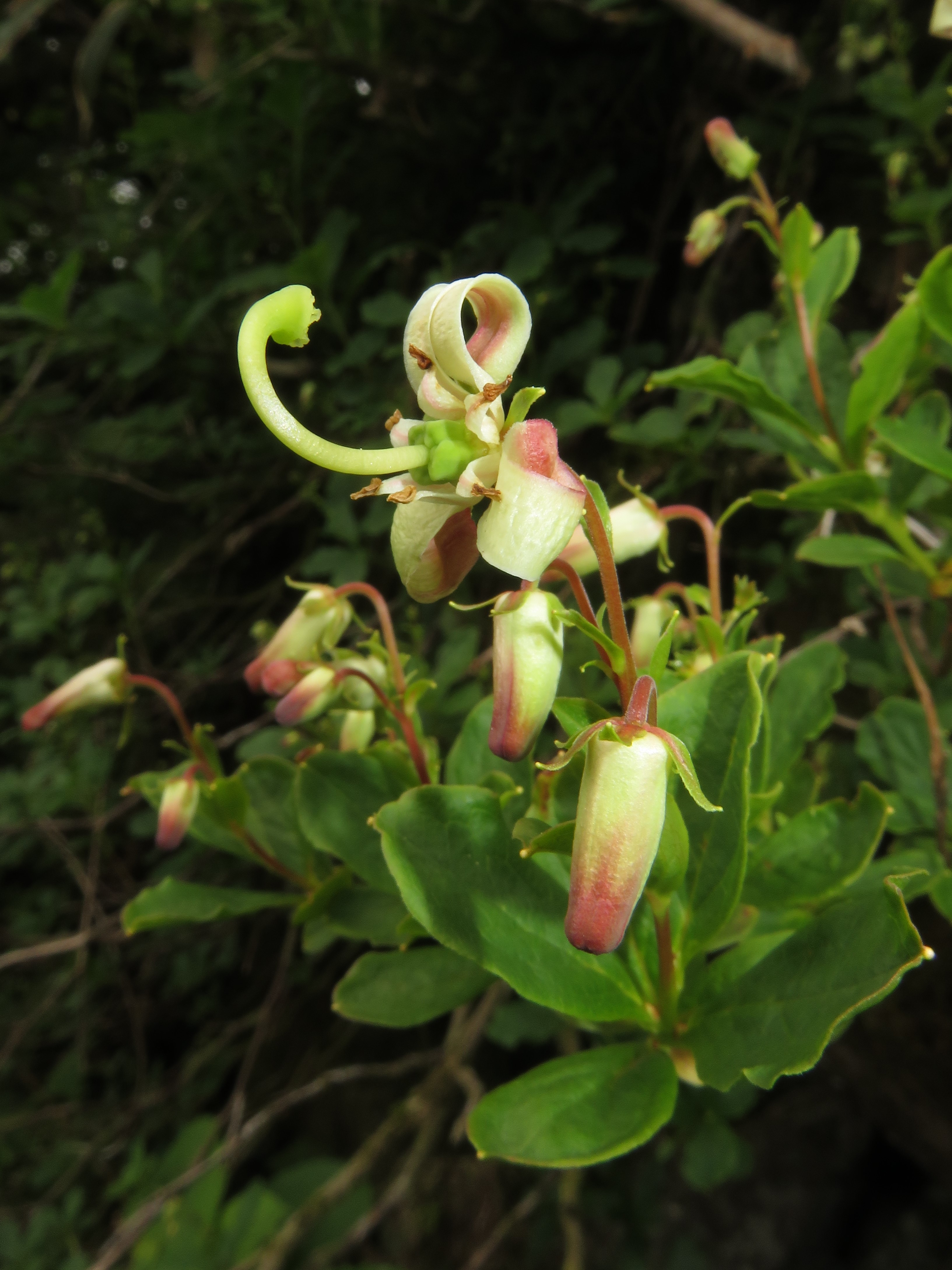 Elliottia bracteata, Mount Nishi-azumayama, Fukushima pref., Japan